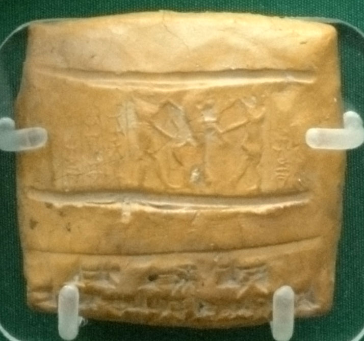 Clay cuneiform tablet of a legal case before Saustatar, King of Mitanni, involving Niqmepa, King of Alalakh. Dated 1550BC-1400BC.